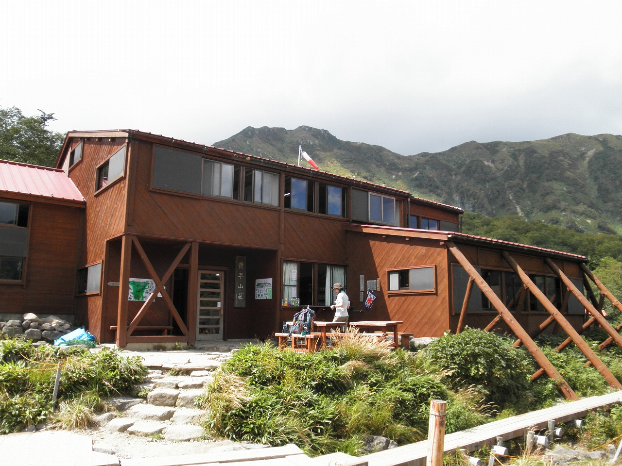 Kagamidaira Sanso (Kagamidaira Mountain Hut) in September 2011